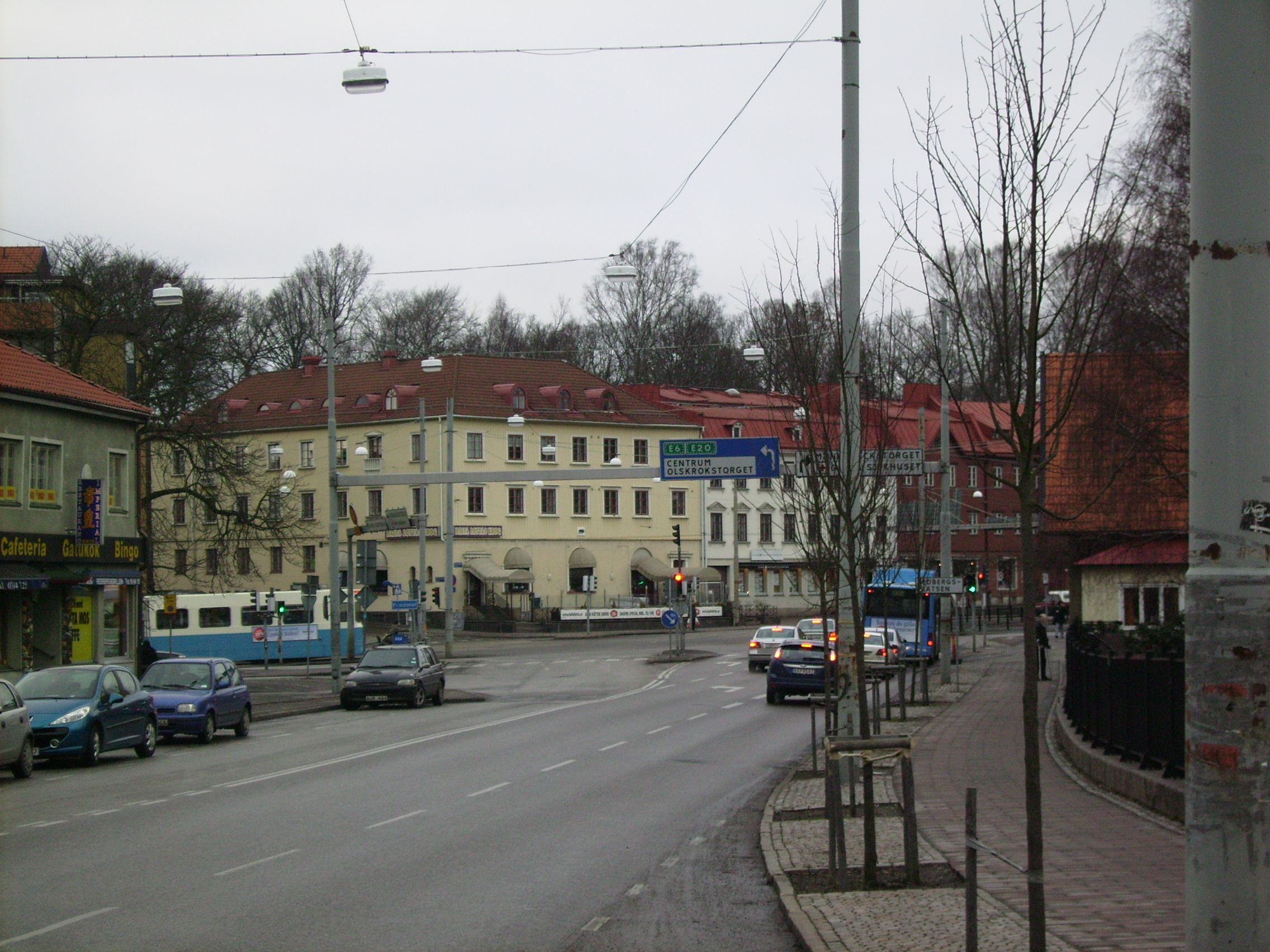 Danska vägen in Gothenburg.